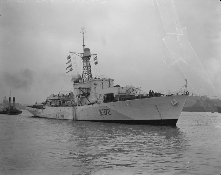 Photograph of Castle class corvette HMS Rushen Castle, on the River Tyne.